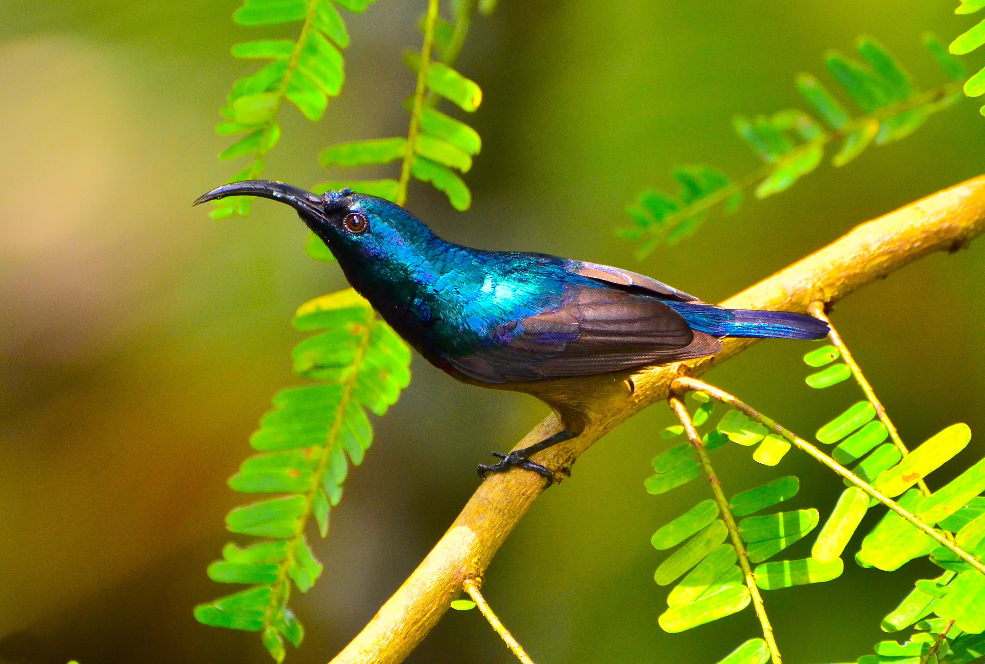 loten sunbird photographed by arshad ka